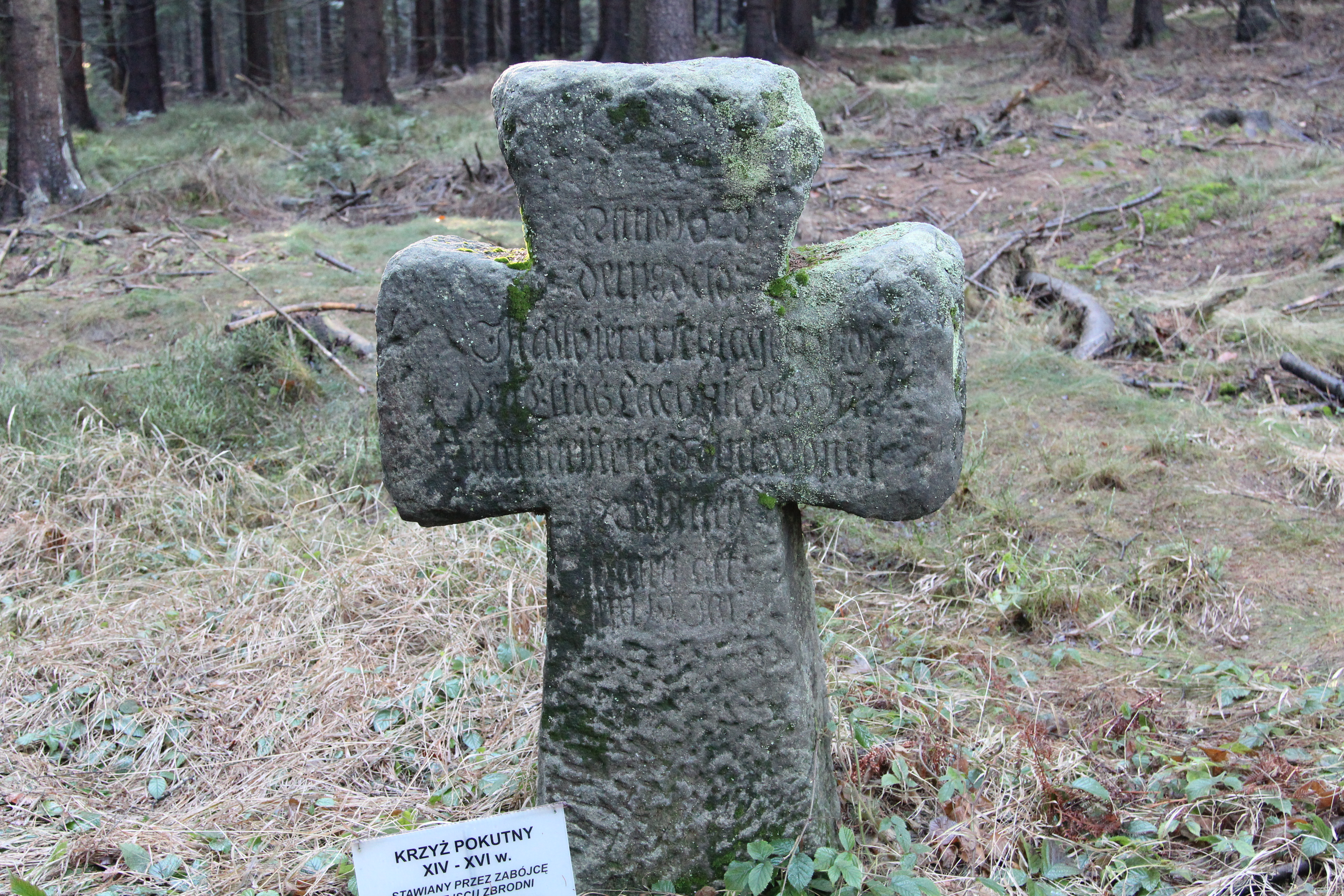 Stone cross, murder stone cross in Lesica